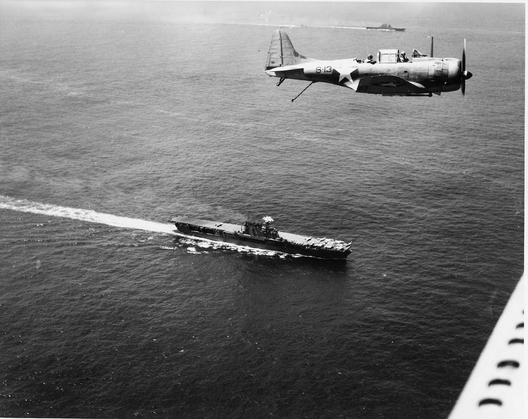 A U.S. Navy Douglas SBD-3 Dauntless flies over the aircraft carriers USS Enterprise (CV-6), foreground, and USS Saratoga (CV-3) near Guadalcanal on 19 December 1942. The aircraft is likely on anti-submarine patrol. Saratoga is trailed by her plane guard destroyer. Another flight of three aircraft is visible near the Saratoga. The radar array on the Enterprise has been obscured by a wartime censor.